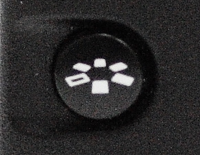 Canon EOS 7D, Picture Style button.